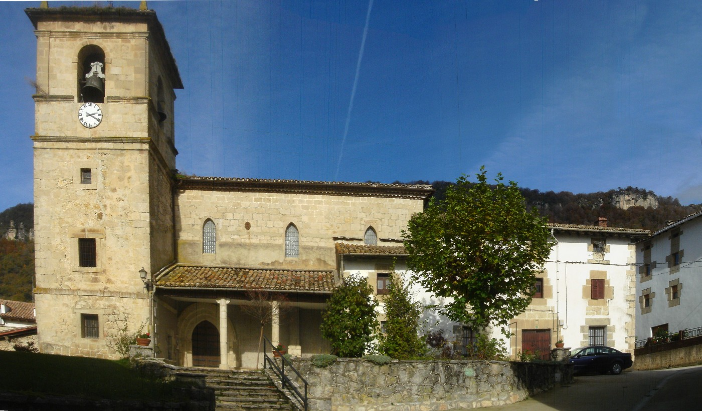 Bakedano (Ameskoabarren, Navarre, Spain)